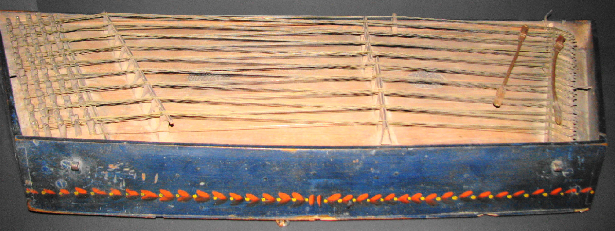 Swiss hammered dulcimer